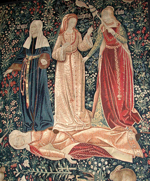 The Triumph of Death, or The 3 Fates. Flemish tapestry (probably Brussels, ca. 1510-1520). Victoria and Albert Museum, London. The three fates, Clotho, Lachesis and Atropos, who spin, draw out and cut the thread of Life, represent Death in this tapestry, as they triumph over the fallen body of Chastity. This is the third subject in Petrarch's poem The Triumphs. First, Love triumphs; then Love is overcome by Chastity, Chastity by Death, Death by Fame, Fame by Time and Time by Eternity.